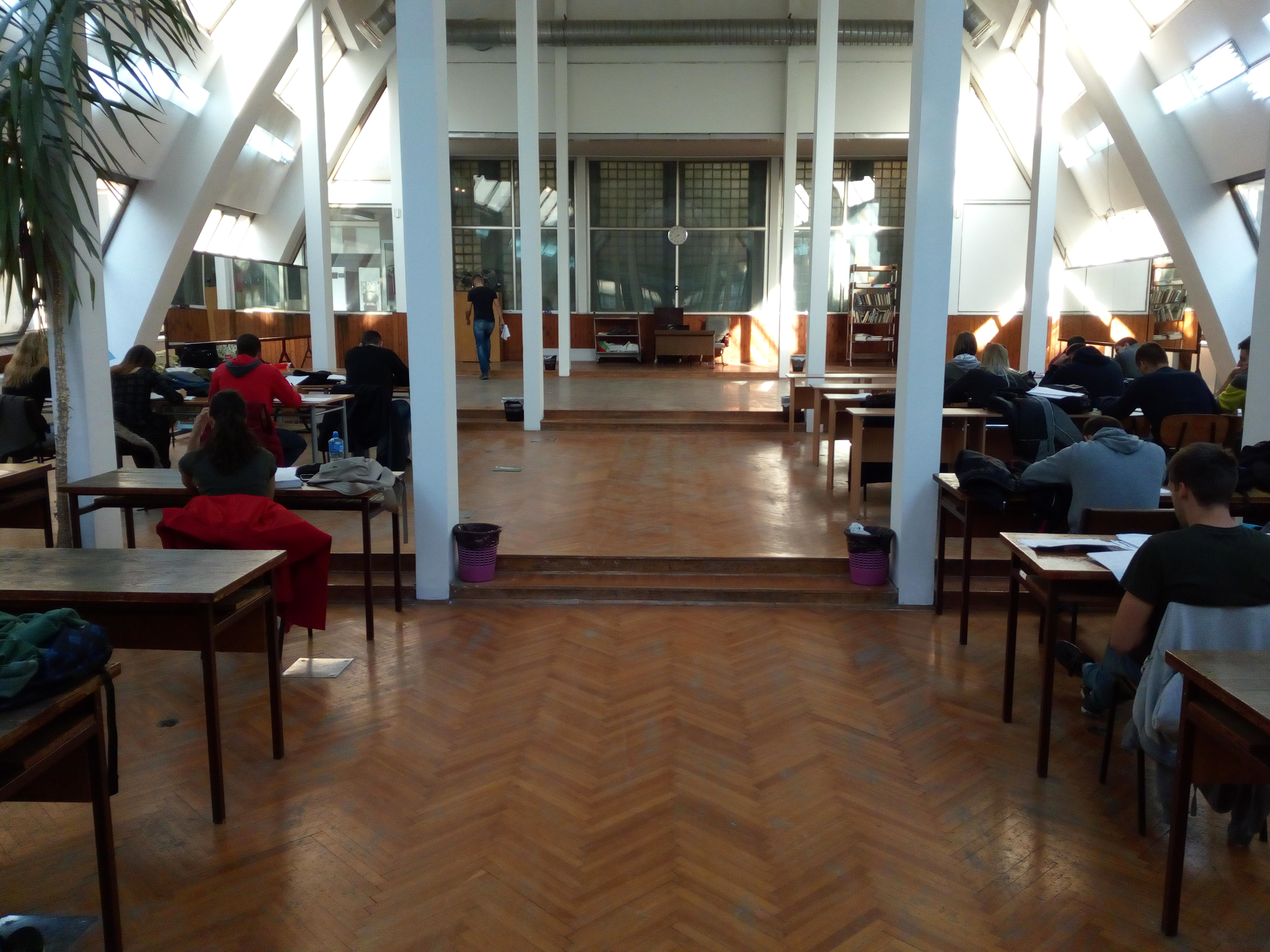 Library inside